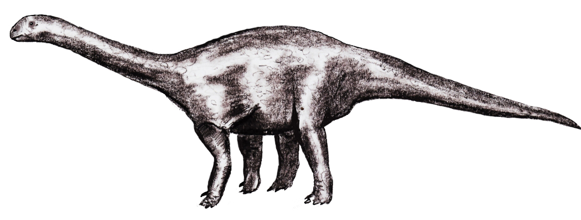 antetonitrus